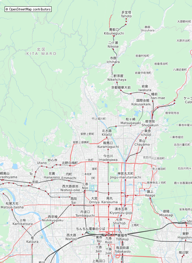 A transport map of Kyoto cropped from Open Street Map.This map of Kyoto, Kyōto Prefecture, Japan was created from OpenStreetMap project data, collected by the community. This map may be incomplete, and may contain errors. Don't rely solely on it for navigation.